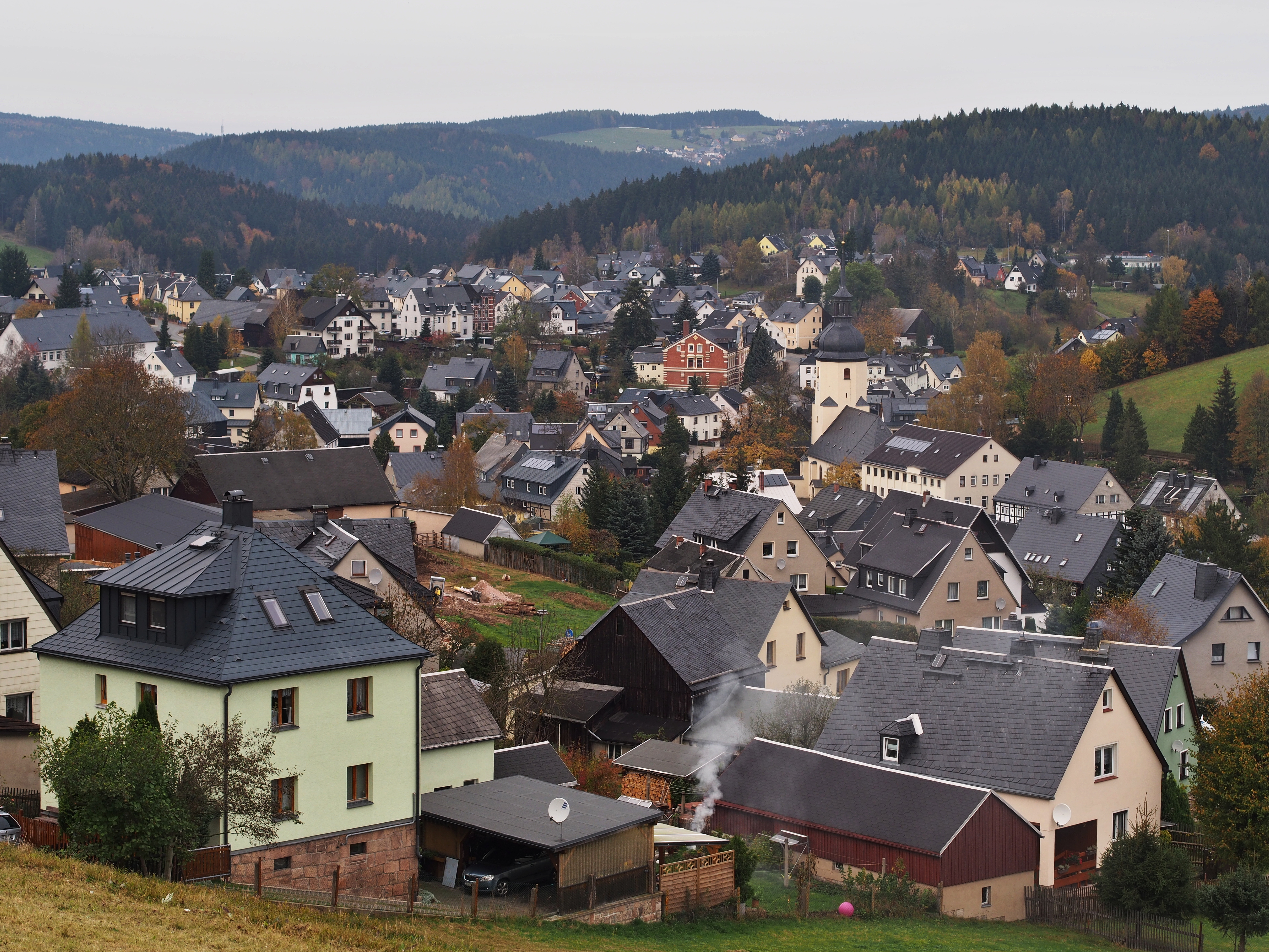 Sosa village, Ore mountains, Germany